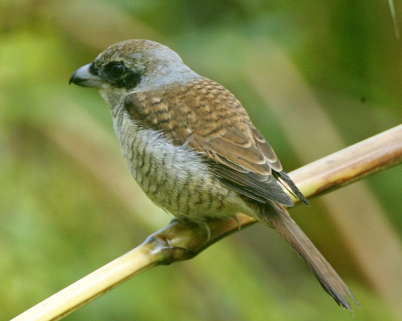 Tiger Shrike (Lanius tigrinus), Panti Forest, Johor, Malaysia